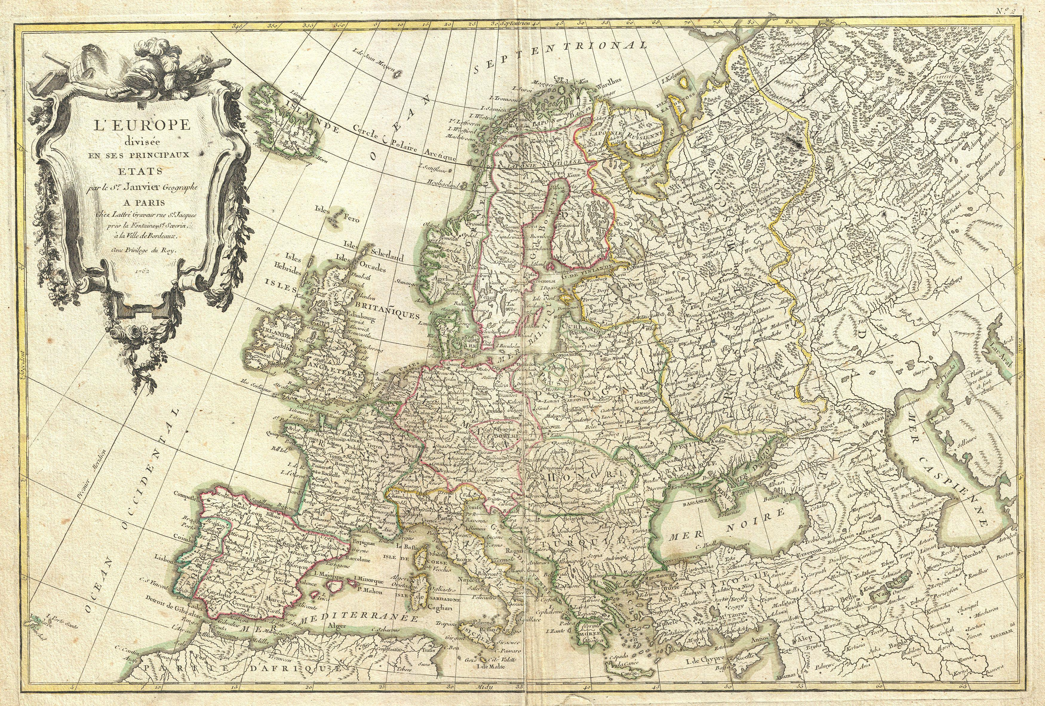 A beautiful example of Jean Janvier's decorative map of the Europe. Covers from Iceland to the Caspian Sea and from North Africa to the Arctic. Divided into countries and kingdoms with color coding according to region. Offers excellent detail throughout showing mountains, rivers, forests, national boundaries, regional boundaries, forts, and cities. A large decorative title cartouche appears in the upper left quadrant. Drawn by Jean Janvier in 1762 for issue as plate no. 2 in Jean Lattre's 1776 edition of the Atlas Moderne .